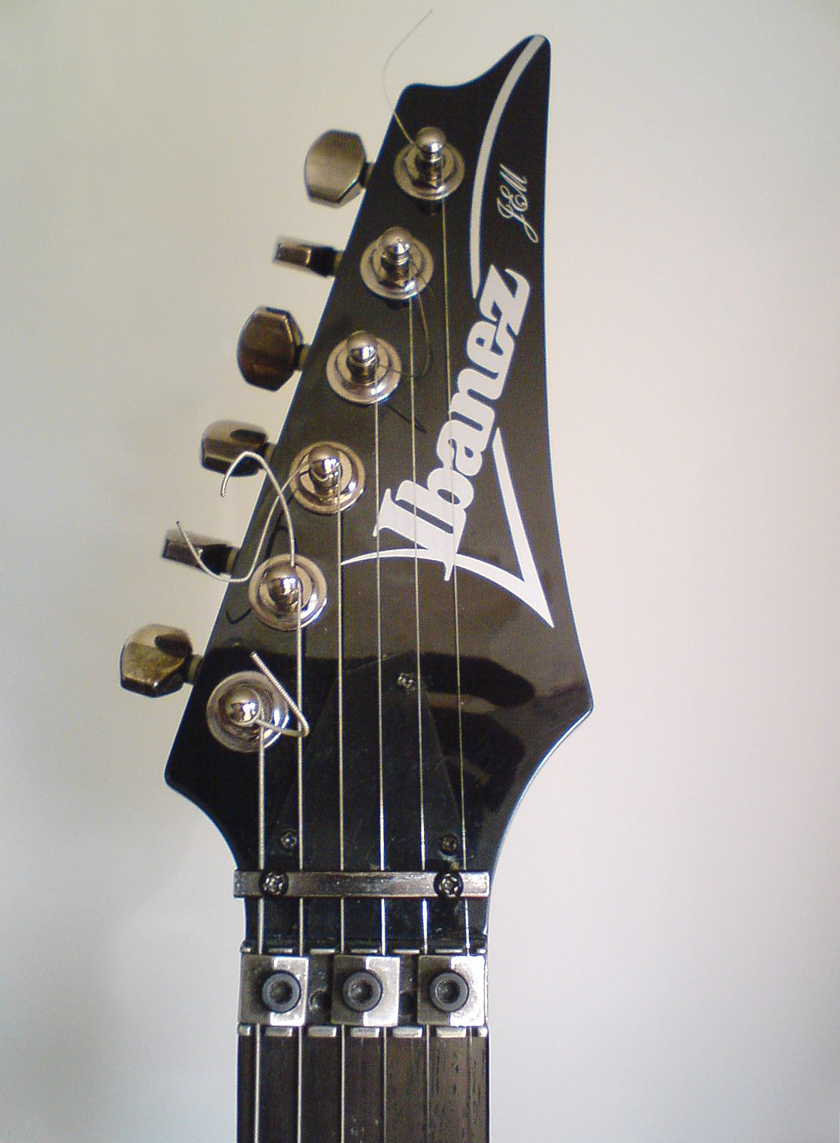 Headstock of Ibanez JEM 555 BK electric guitar